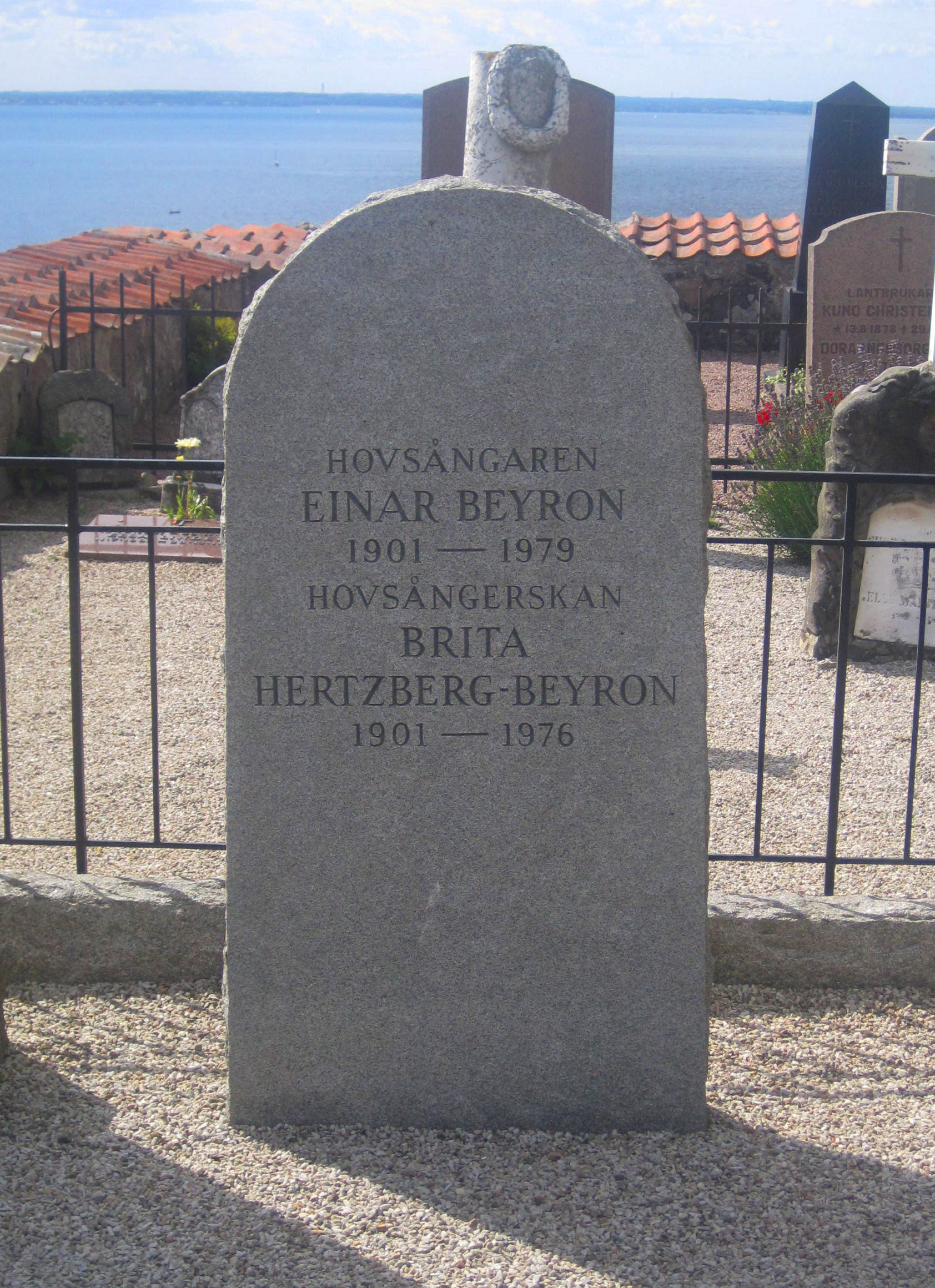 The graves of Swedish opera singers Einar Beyron and Brita Hertzbergat the churchyard of Sankt Ibbs gamla kyrka at Ven, Sweden.